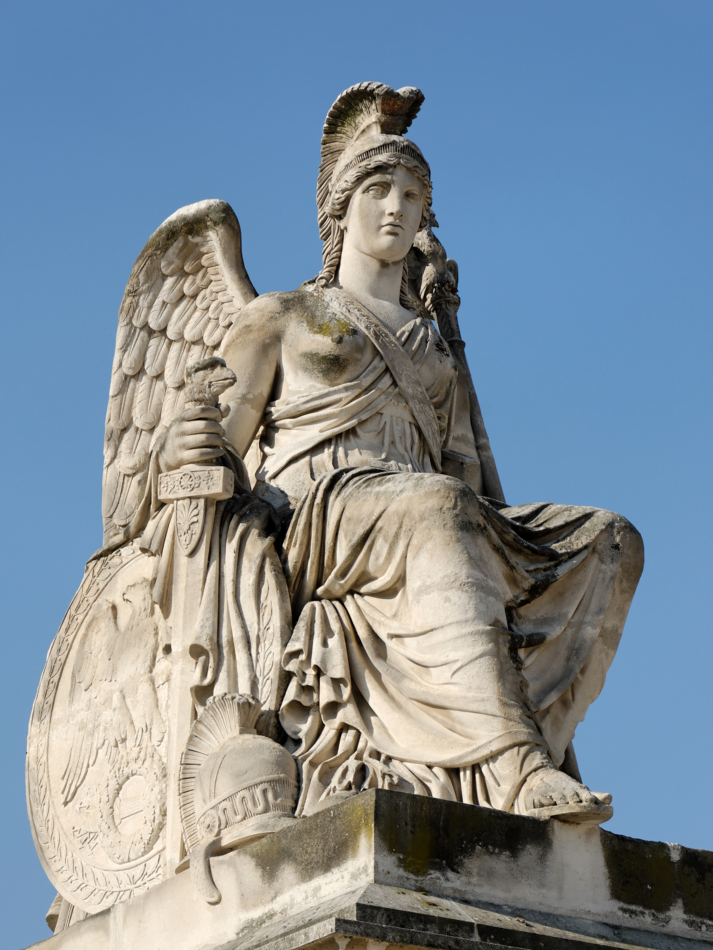 Allegory of victorious France (1814) by François-Antoine Gérard (1760–1843). Near the Arc de Triomphe du Carrousel, Paris.